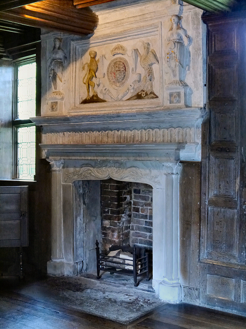 Elizabethan fireplace in the Parlour of Little Moreton Hall, Cheshire, England